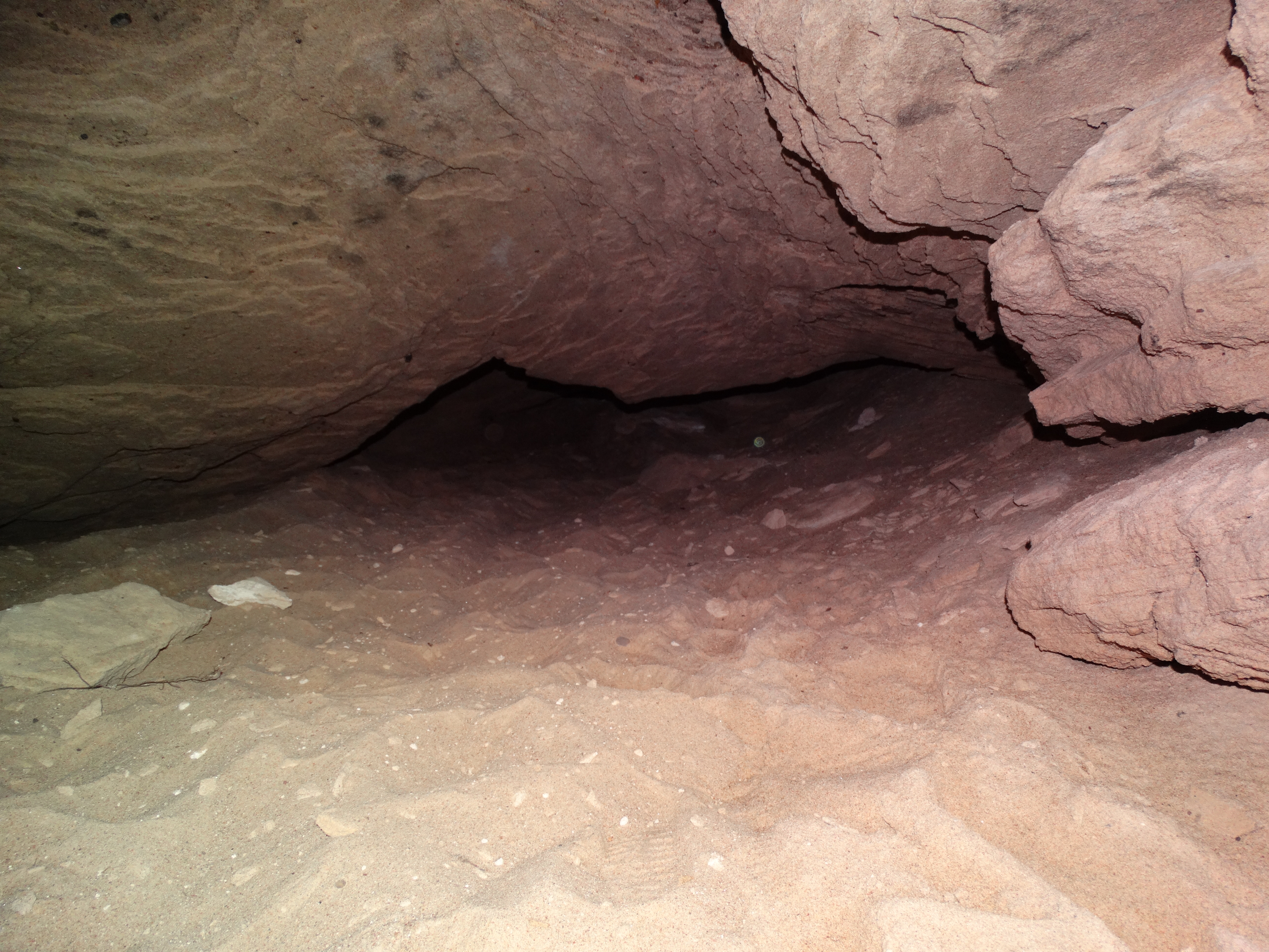 Cave by Čiobiškis, Širvintos District, Lithuania